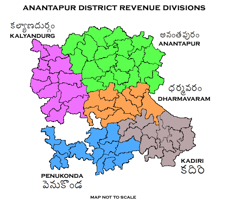 Revenue divisions map of Anantapur district